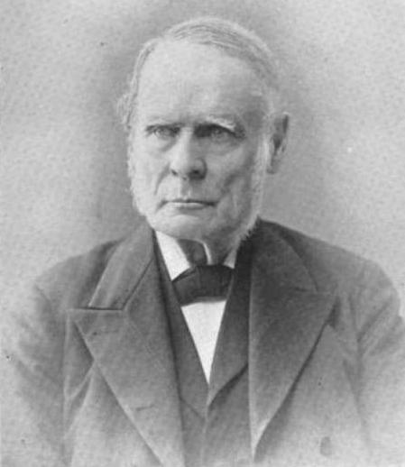 John J. Perry, Congressman from Maine